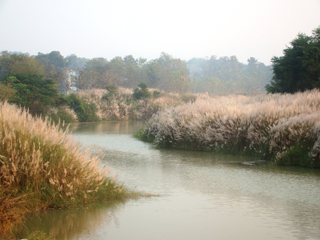 Mahendra Tanaya River